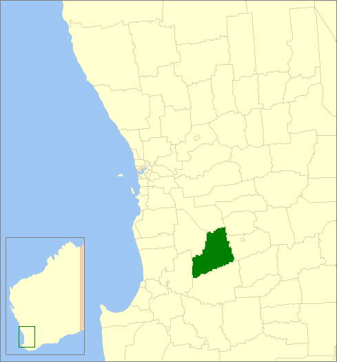 Description=Location of the Local Government Area in Western Australia